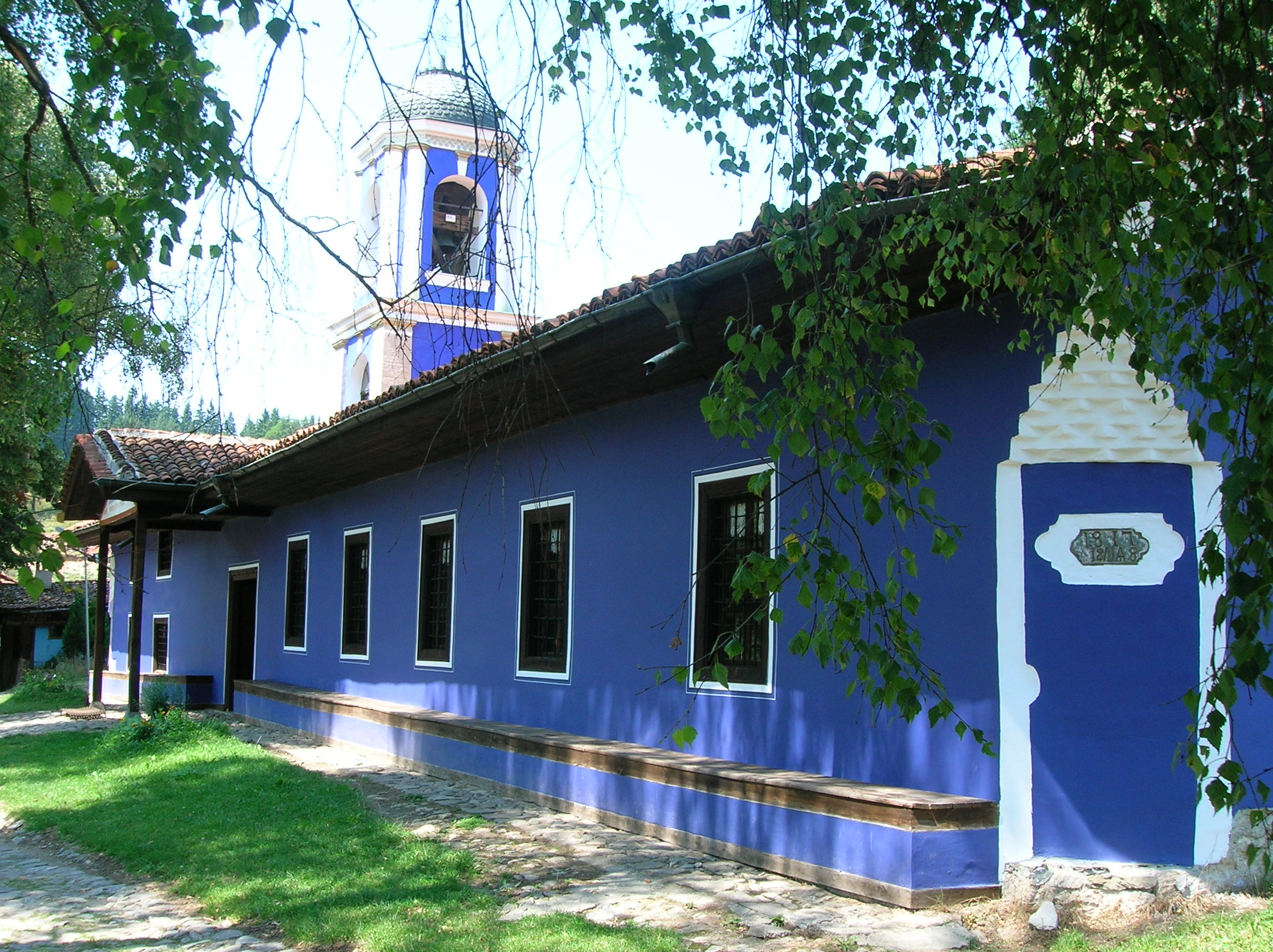 Church Ouspenie Bogoroditchno, in Koprivshtitsa (Bulgaria).